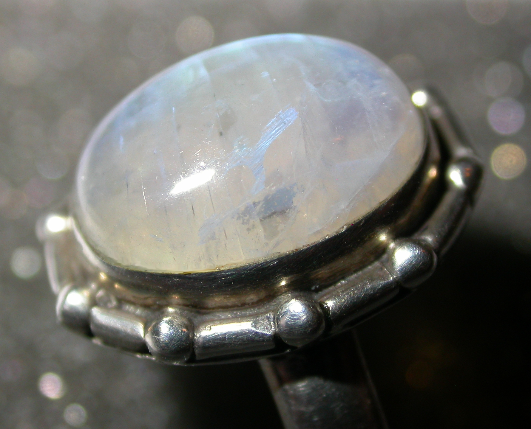 orthoclase-variety moonstone, Cabochon-cut as fingerring